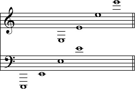 Notes, E